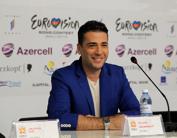 Press konferencija of Željko Joksimović in Baku